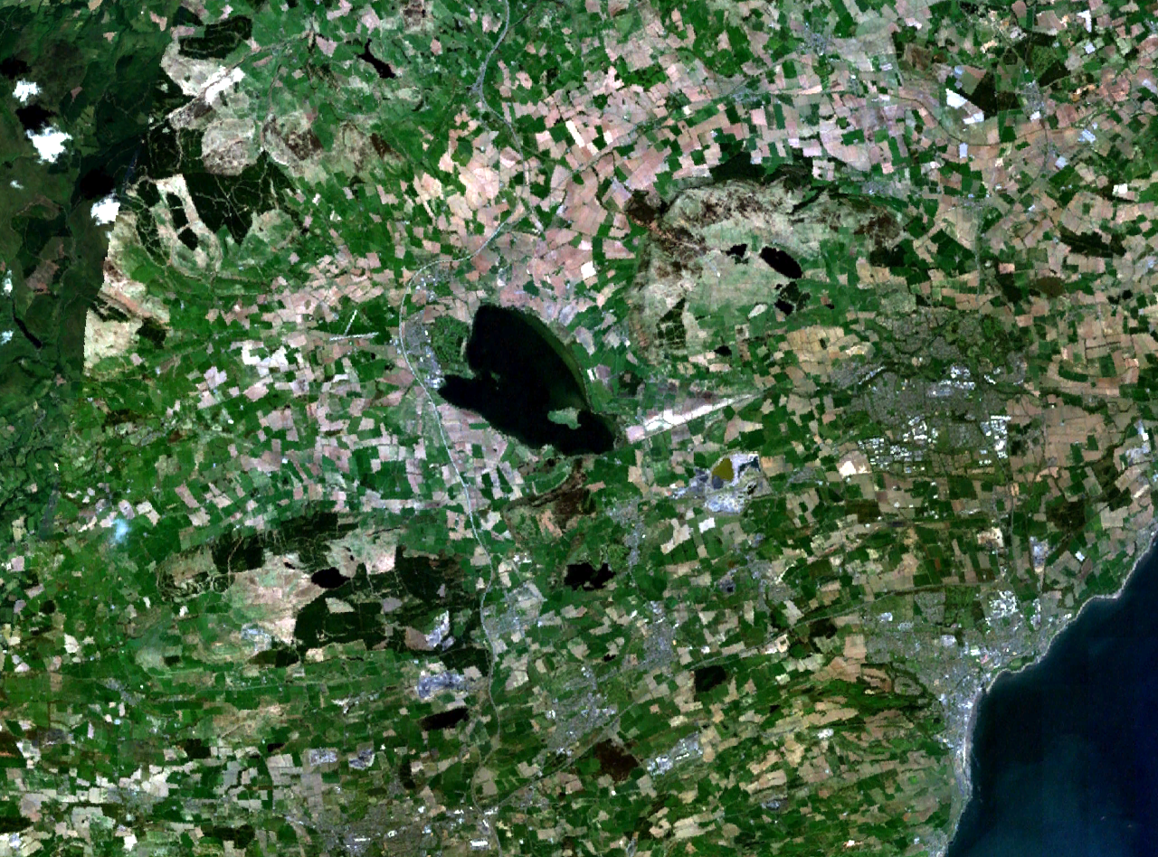 Loch Leven and central Fife in Scotland. Kirkcaldy is visible on the coast to the southeast, Glenrothes to the east, and part of Dunfermline to the south. The M90 motorway runs to the west, through Kinross and past Milnathort.